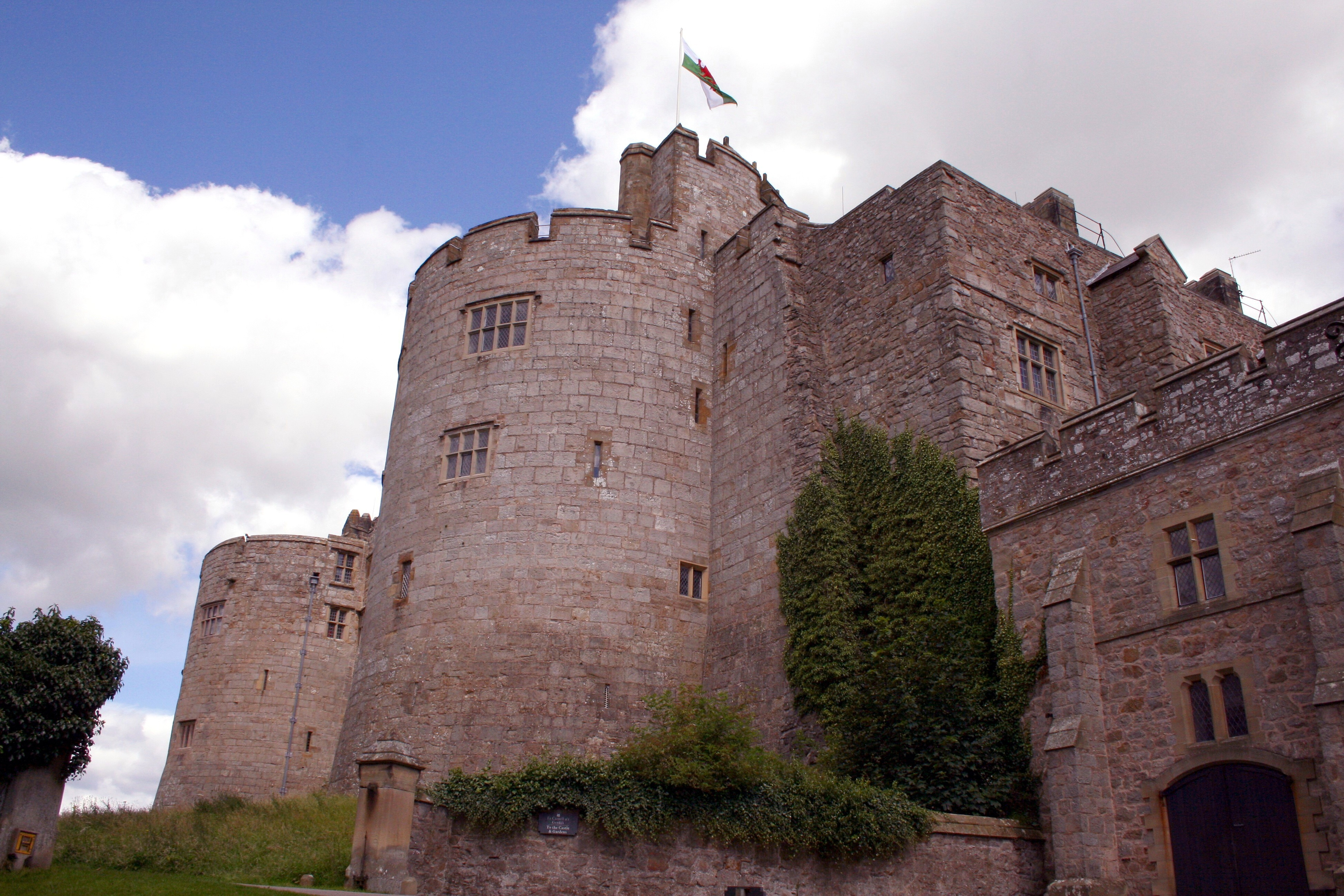 Chirk Castle